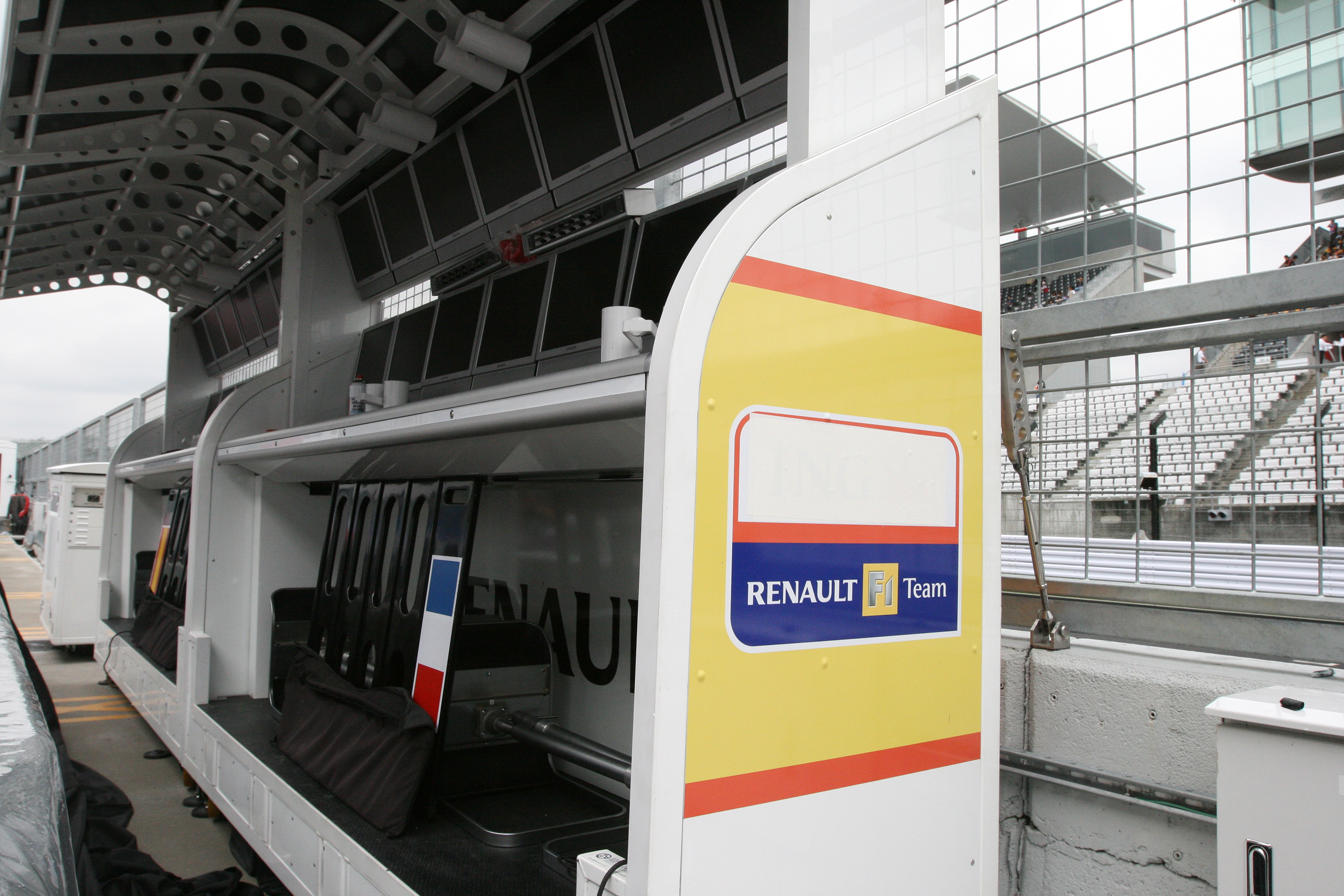 Formula One 2009 Rd.15 Japanese GP: Renault's s pit-wall command centre without ING logo.